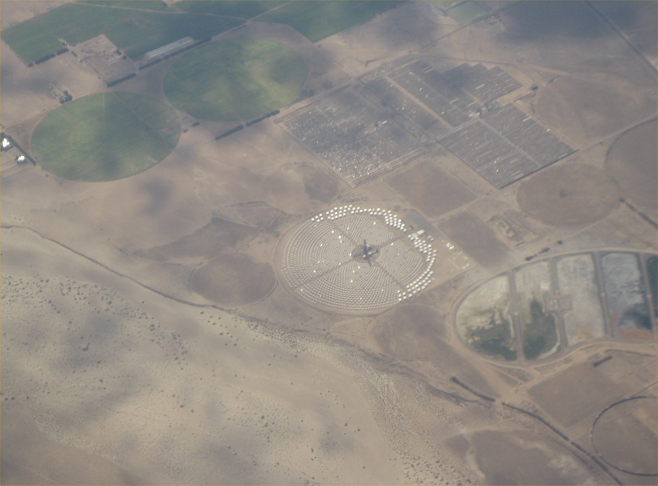 I didn't know what this was when I took this picture on a United flight from LAX to Boston in August. It's Solar Two, a former solar research prototype 10 miles east of Barstow, CA in the Mojave Desert.